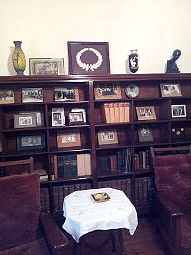 Άποψη του γραφείου της Α.Παναγιωτάτου με ενθυμήματα από τον βίο της, όπως διατηρείται μουσειακώς από το 1954